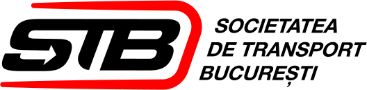 Logo of Societatea de Transport București, successor of Regia Autonomă de Transport București from 13 September 2018.